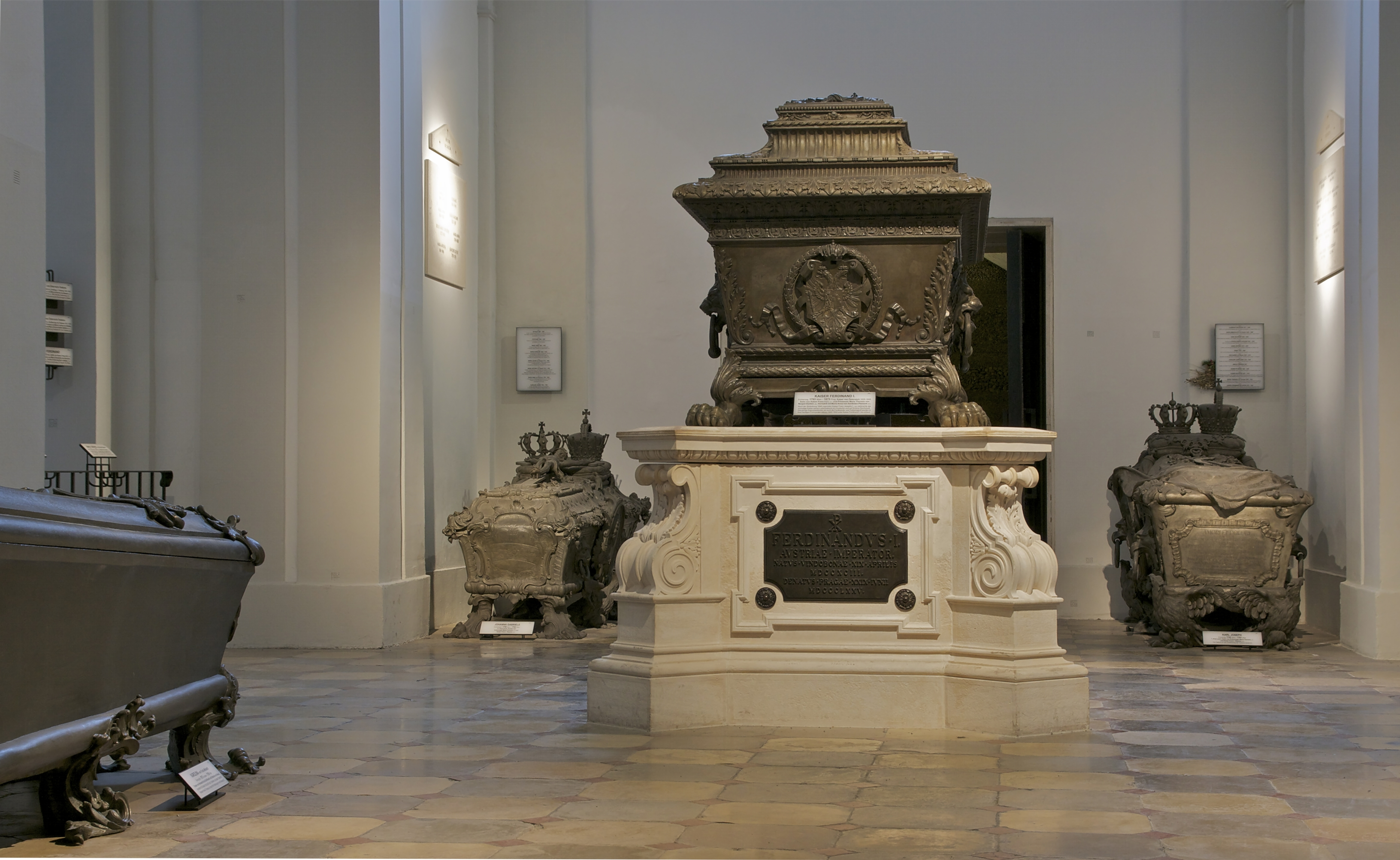 Inside the Imperial Crypt, the "Ferdinandsgruft" with several tombs, among them, the prominent sarcophagus of Emperor Ferdinand I of Austria(1793 - abd. 1848 - 1875). Vienna, Austria.